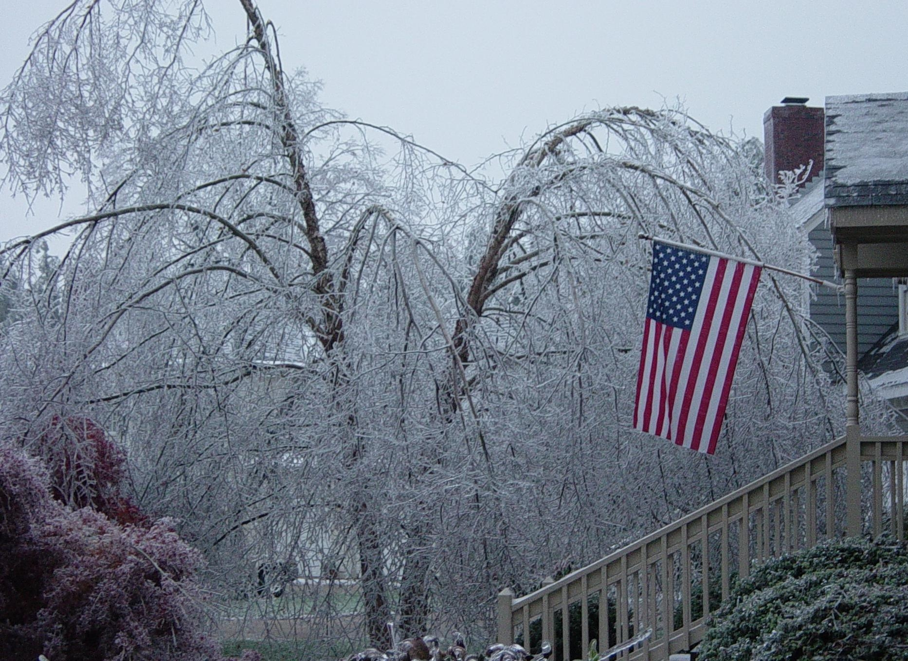 American flag hanging proudly from the porch of a home during a devastating ice storm. This storm produced between 1/2 and 1 inch thick ice glazing over a wide area resulting in power outages to over 1 million North Carolina customers. North Carolina, Raleigh.